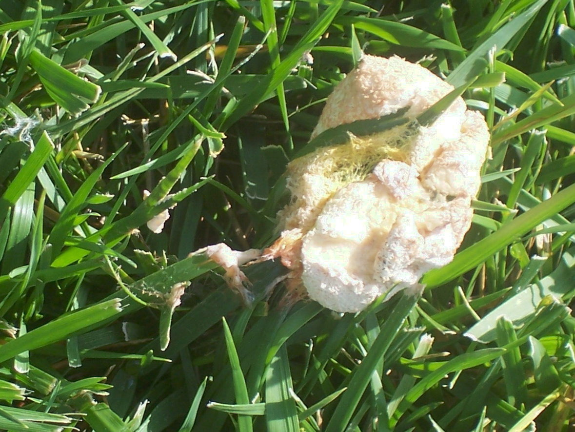 These pictures also appeared on , BTW.Steve Dufour 05:46, 15 July 2006 (UTC)